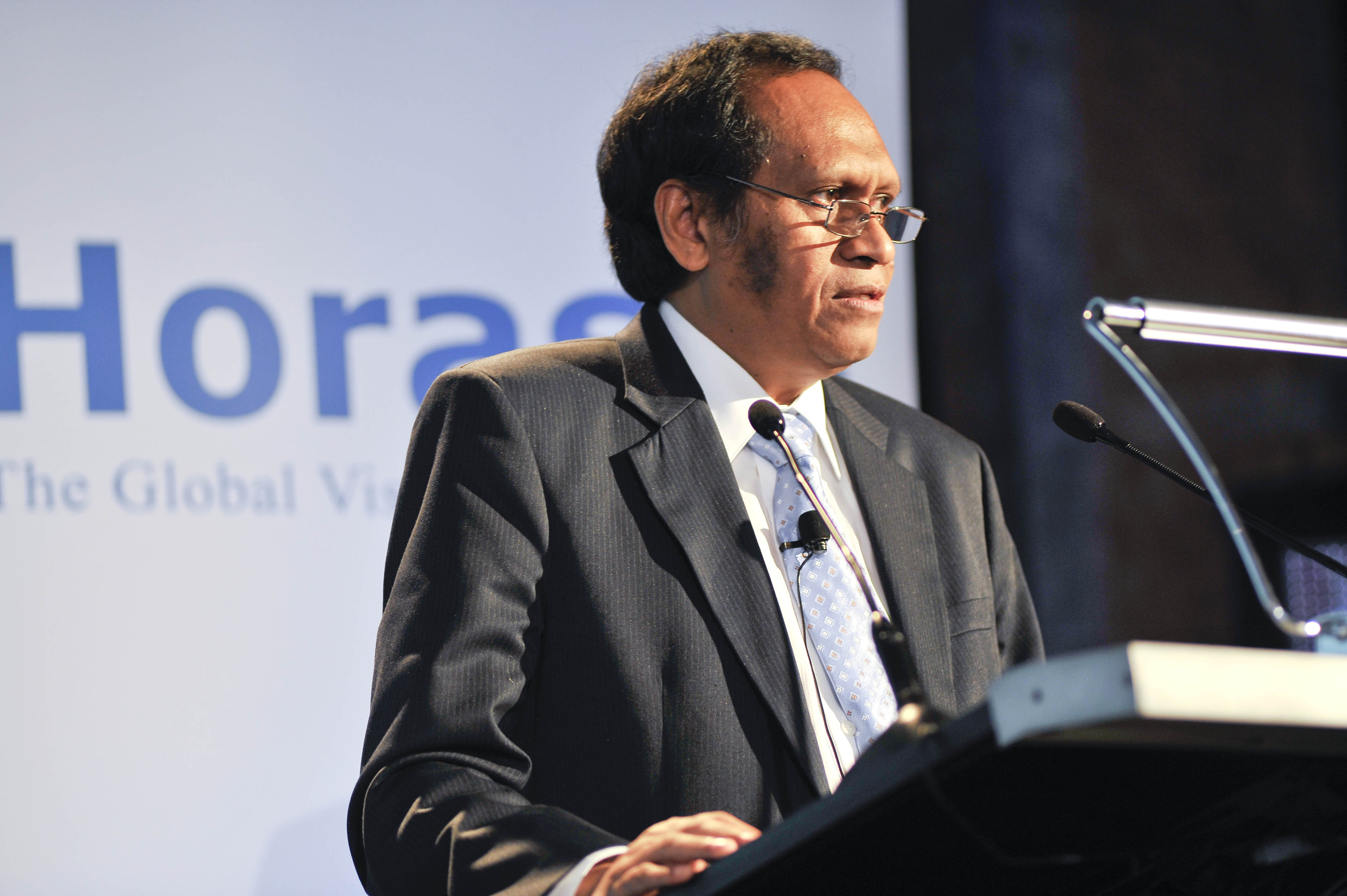 José Luís Guterres, Deputy Prime Minister of Timor Leste, addressing participants at Horasis Global China Business Meeting 2009